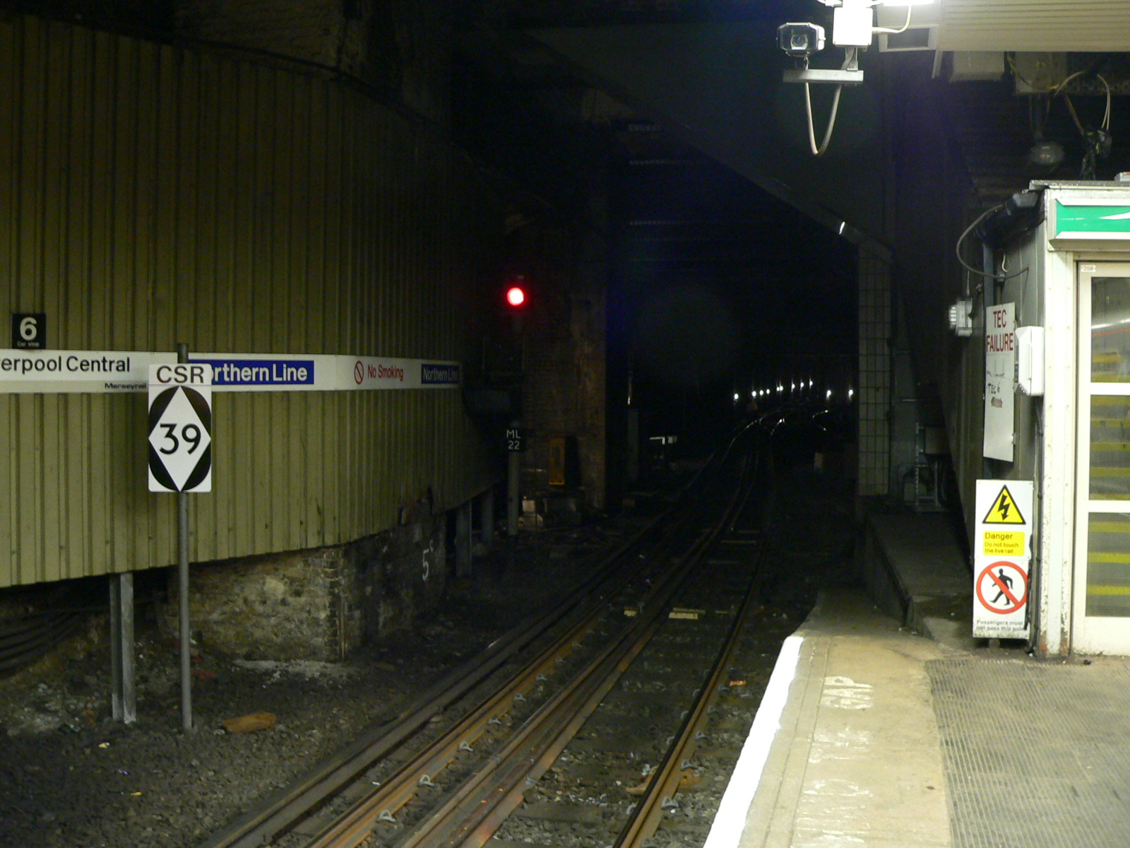 The Northern Line tunnel to the south of platform 1 at Liverpool Central railway station. I don't know what the CSR 39 sign is referring to, but my guess is that it is related to the Cab Secure Radio system.